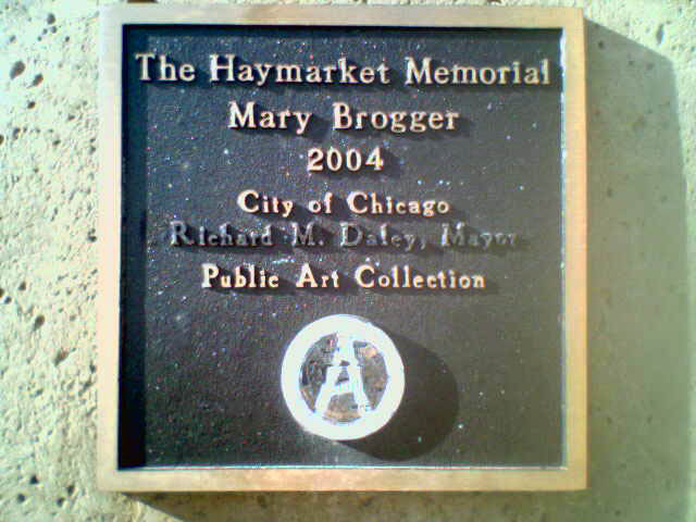 Self Shot on Cellphone Camera